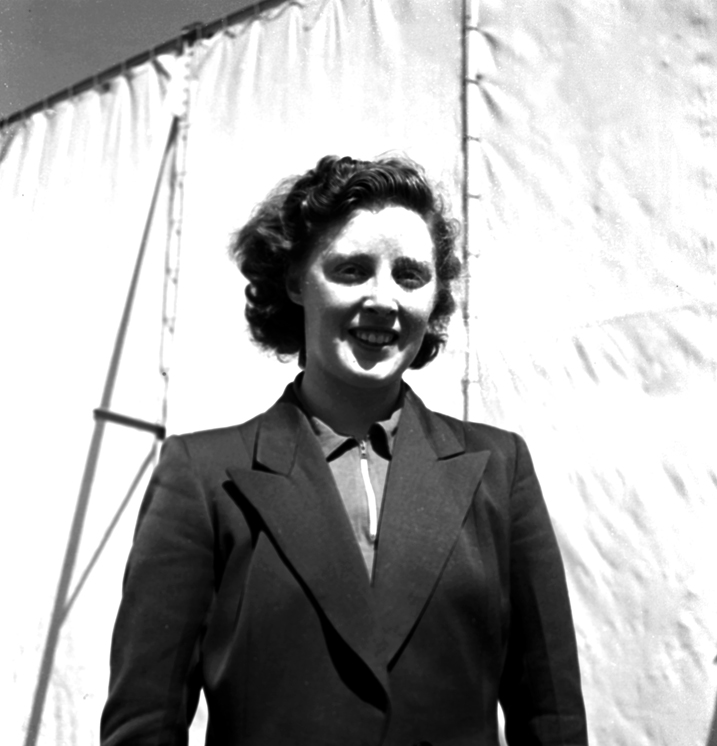 Studio/Feb.52,A39a Helen Elliott (Scotland) who took part in the International Table Tennis Championships at Bombay in February, 1952.